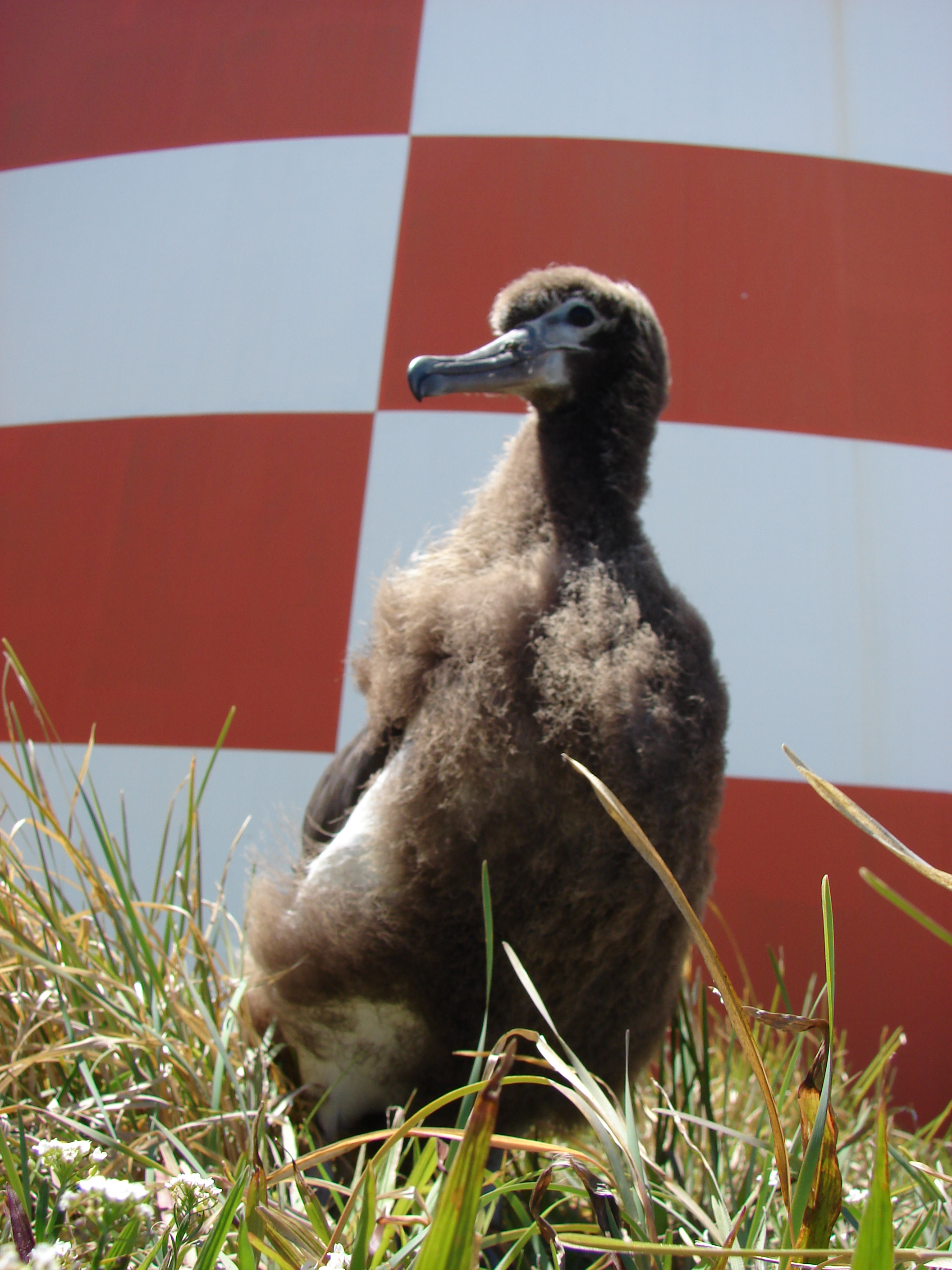 Eustachys petraea (habit with Laysan albatross chicks). Location: Midway Atoll, Water tanks Sand Island